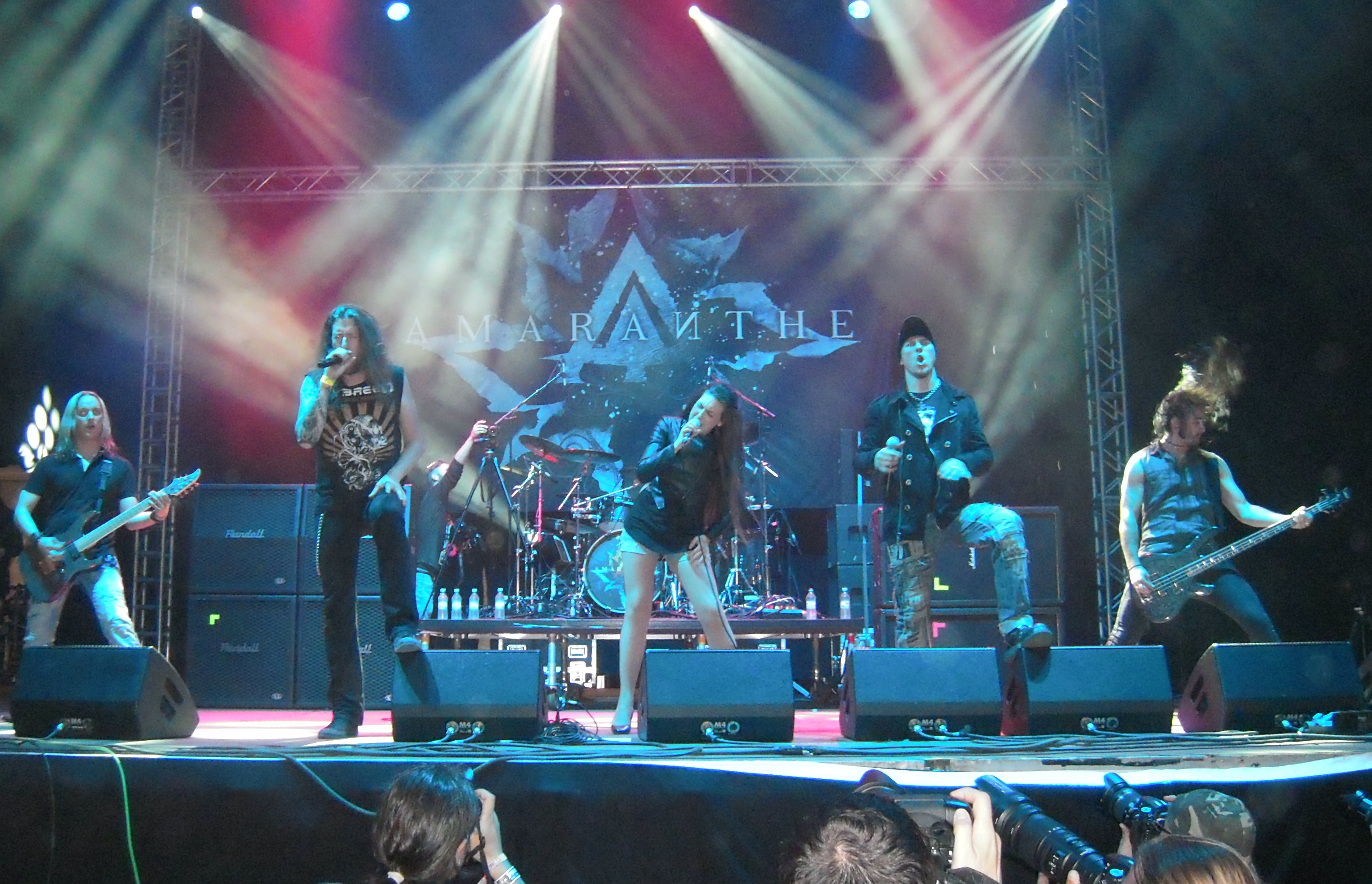 Location: Wacken Open Air Festival 2012 (Wacken, Schleswig-Holstein)